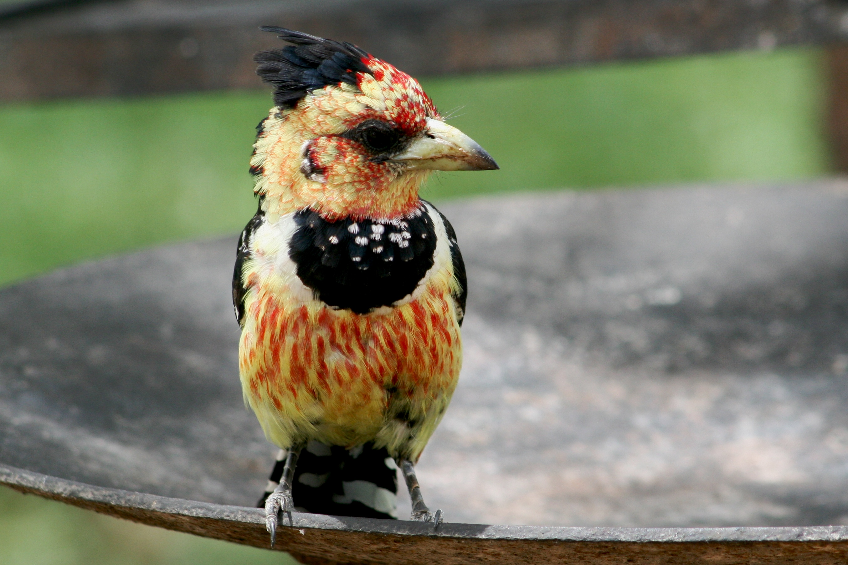 Crested Barbet getting ready for the braai